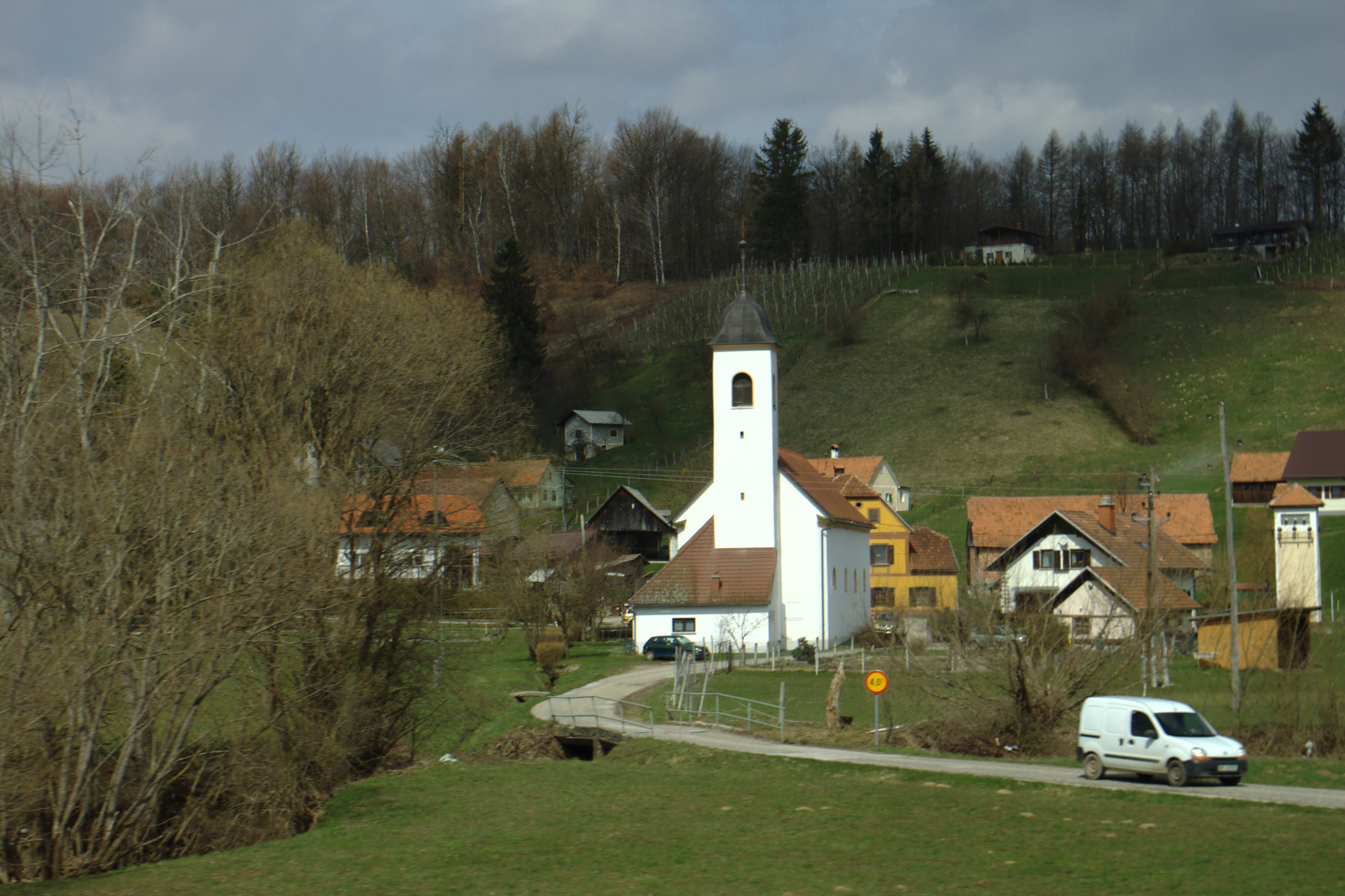 View of the main church in the village of Zakl, Southeastern Slovenia